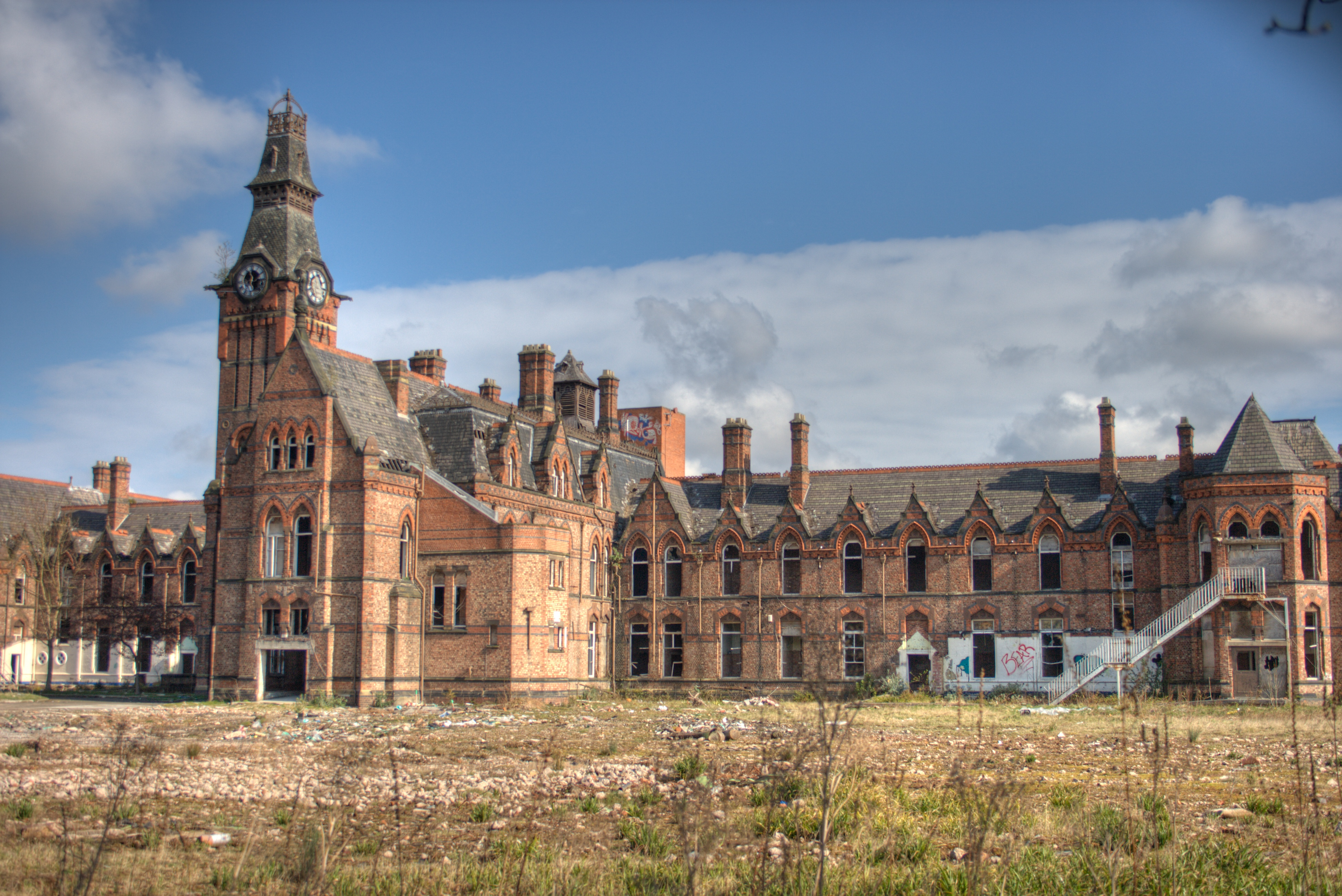 Barnes Hospital near Cheadle, Greater Manchester, England, in April 2008.